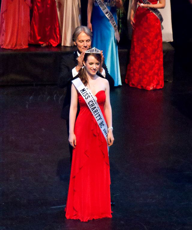 Monte Durham crowning Patricia Celan as Miss Charity BC